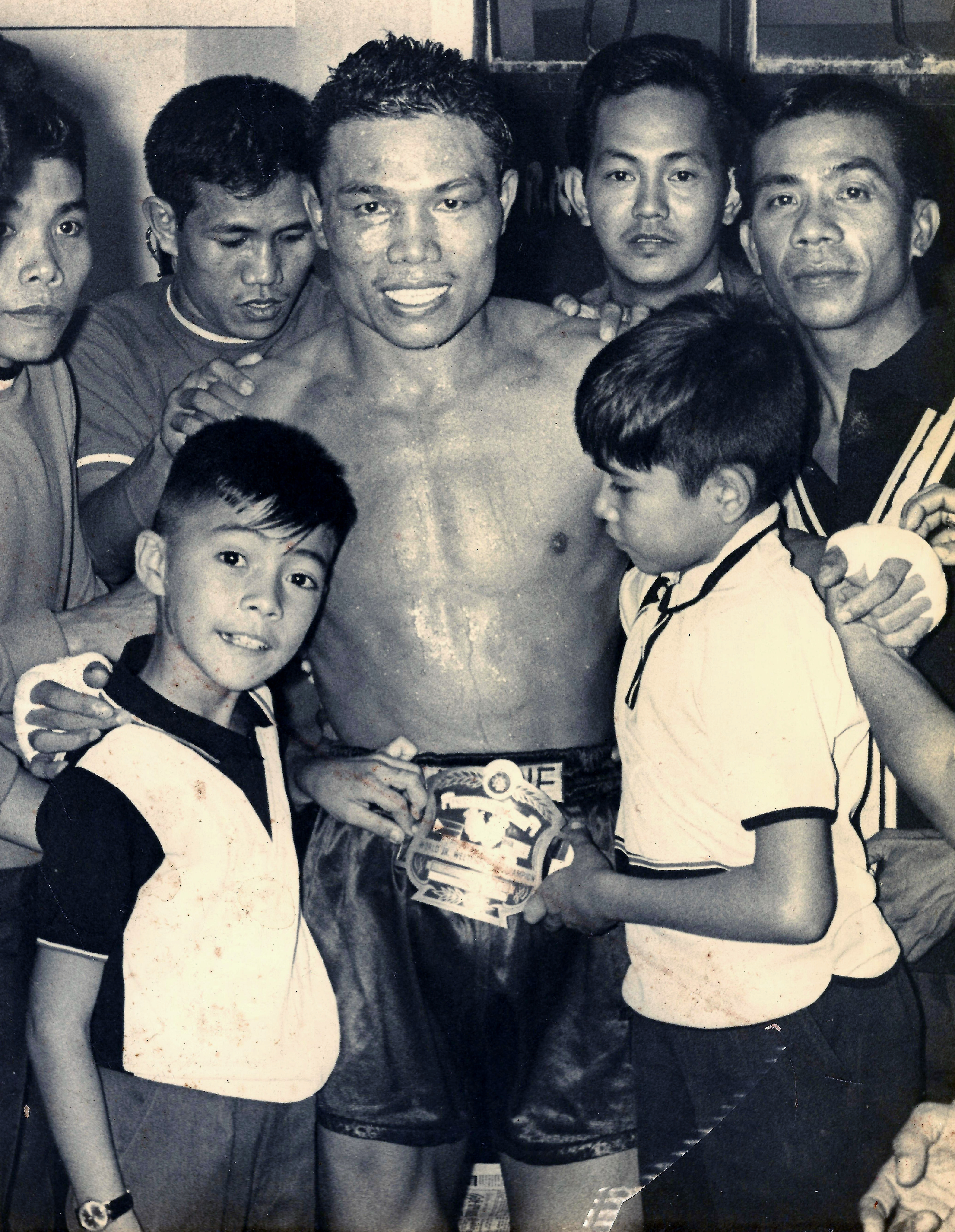 Pedro Adigue Jr. wearing the WBC Jr. Welterweight Championship belt